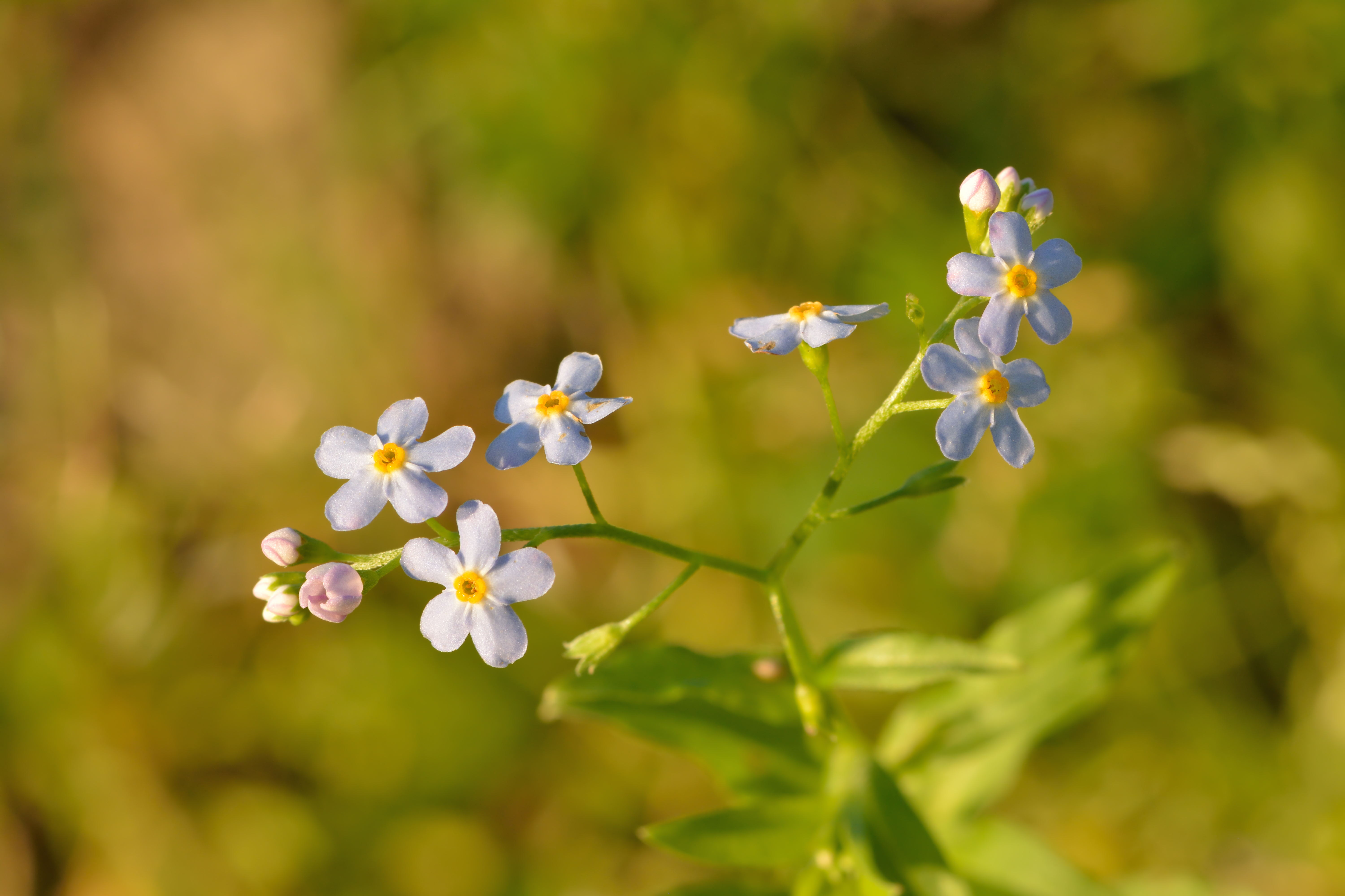 Myosotis scorpioides - water forget-me-not in Keila, Northwestern Estonia.